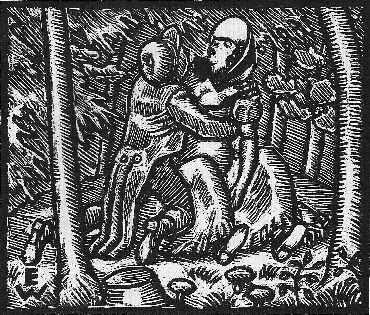 Miss Bünzlin about to become Dietrich's lover